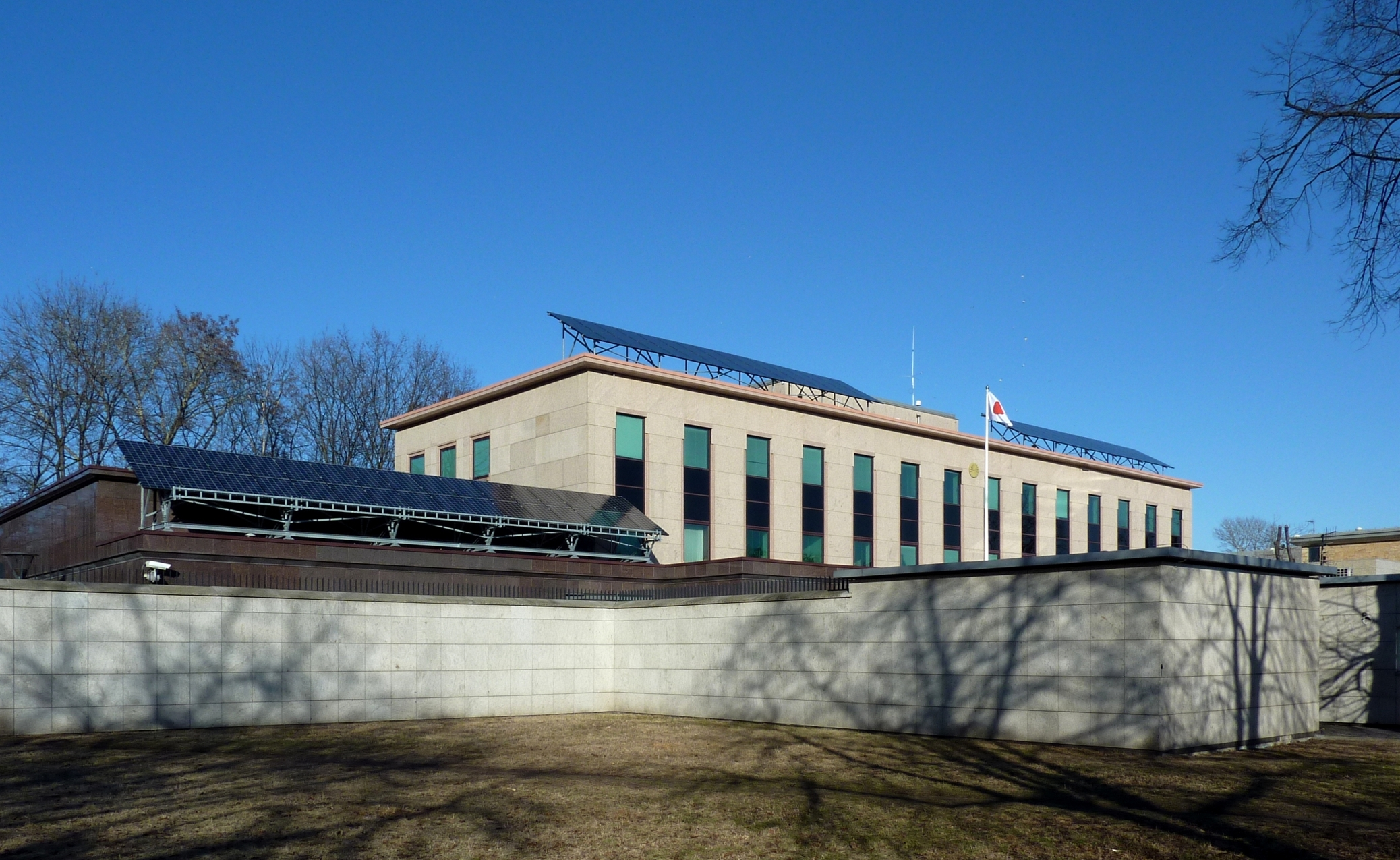 Japanese Embassy in Poland, Warsaw.